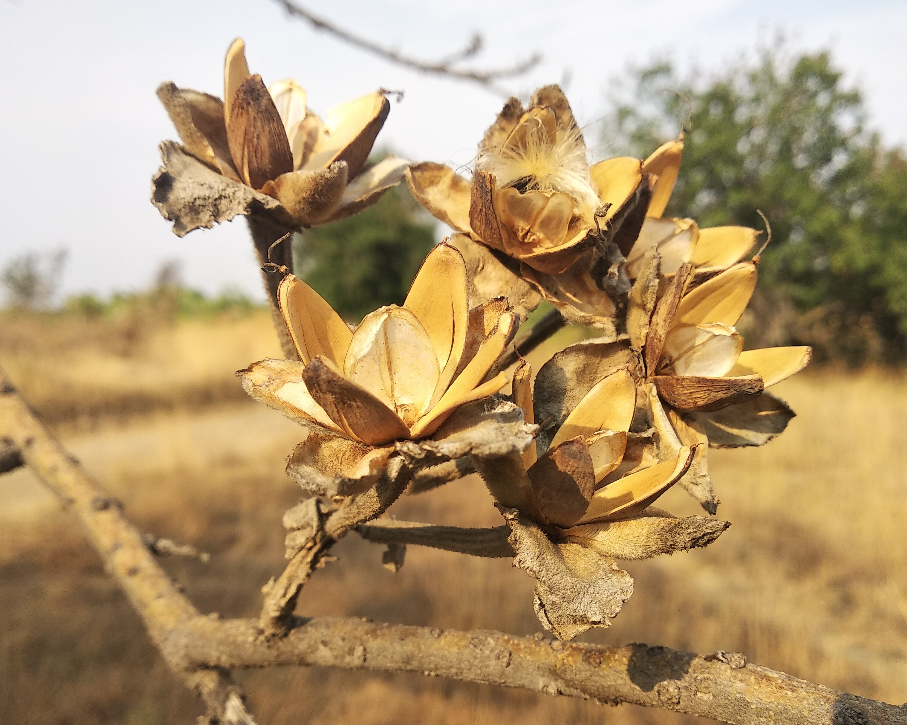 Picture of the fruits of Ipomoea murucoides, taken in San Pedro Cholula, Puebla, Mexico (cerro Zapotecas). This photo was first published on iNaturalist